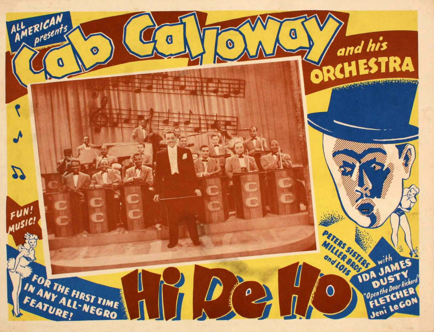 Lobby card for the American musical race film Hi De Ho (1947).